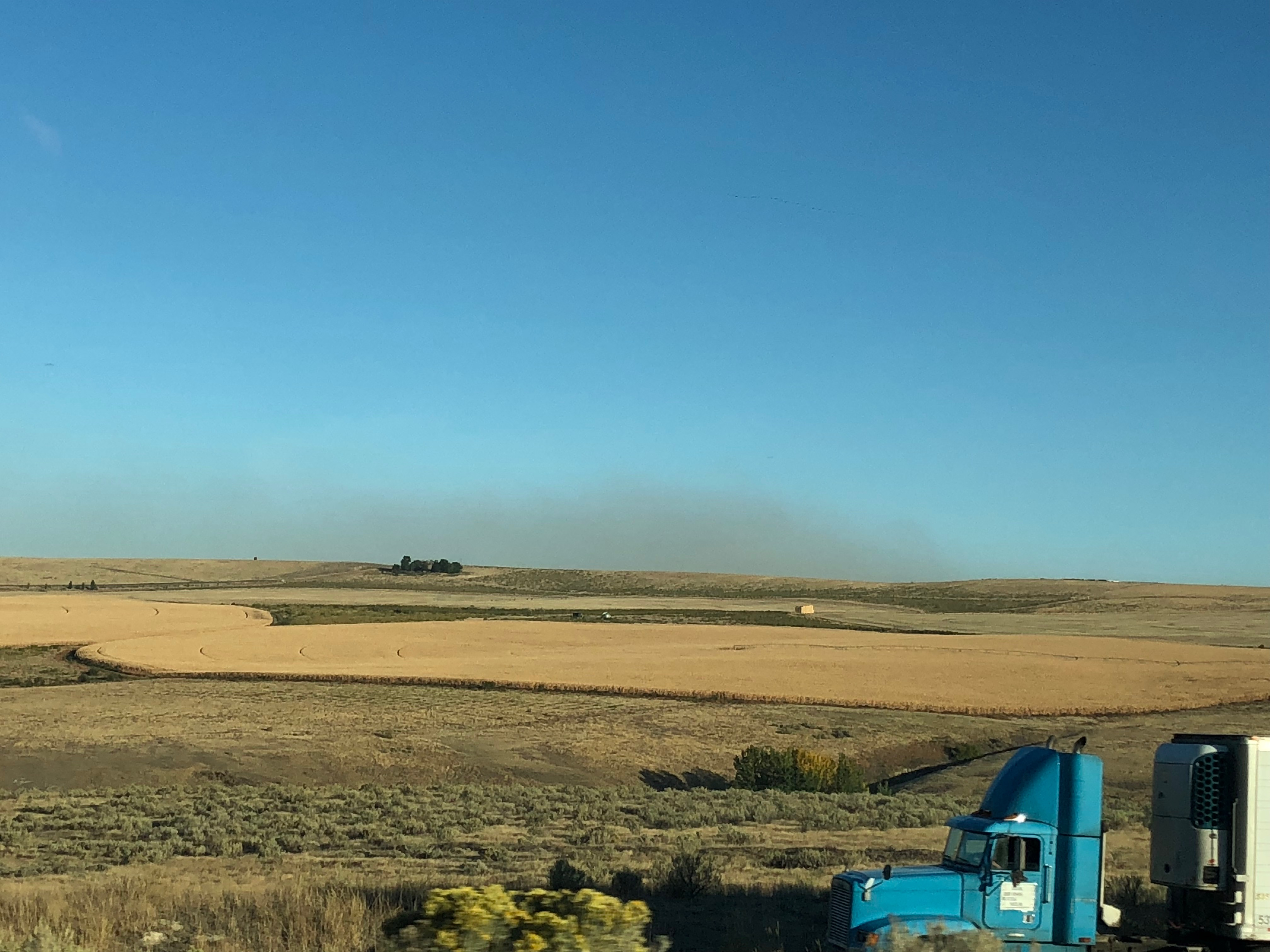 Farmland on the Horse Heaven Hills as seen from Interstate 82 near Plymouth.